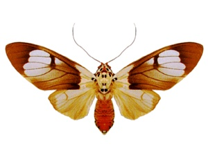 Amerila crokeri Phylum ARTHROPODA Class HEXAPODA Order Lepidoptera Family Arctiidae